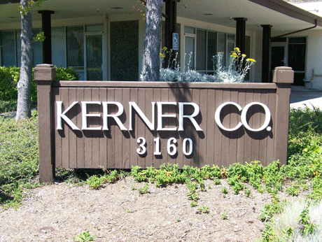 Picture of Kerner Co. sign in front of Kerner Optical (previously ILM)